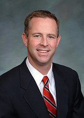 Colorado state representative Rob Witwer